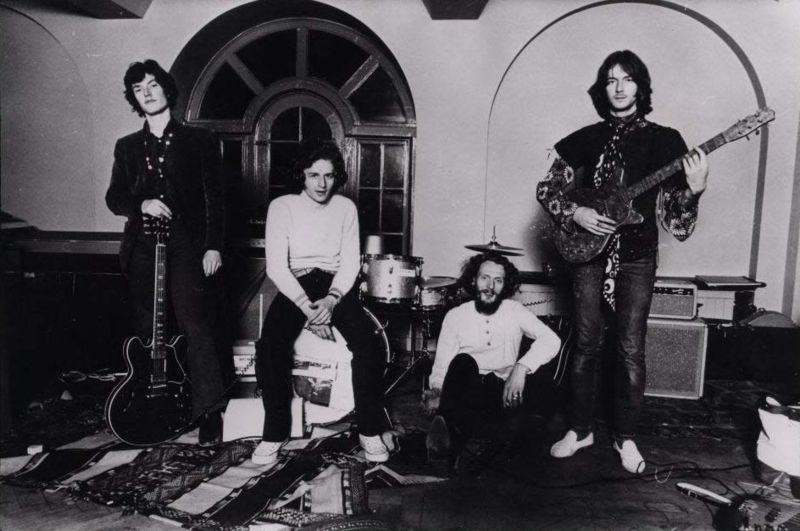 British band Blind Faith (1969).